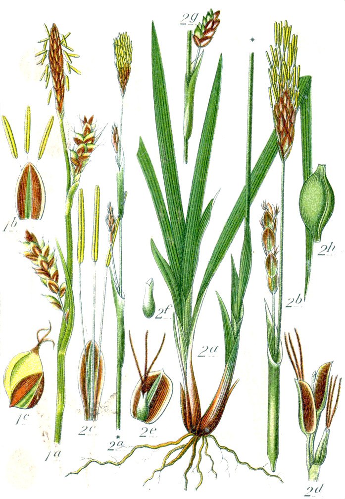 1. Carex panicea L. 2. Carex vaginata var. vaginata, syn. Carex sparsiflora (Wahlenb.) Steud. Original Caption 1. Hirsen-Segge, Carex panicea 2. Scheiden-Segge, Carex sparsiflora (Wahlenb.) Steud.